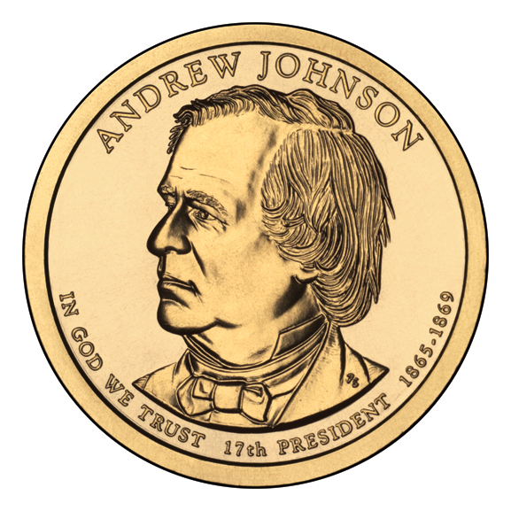 Presidential $1 Coin Program coin for Andrew Johnson. Obverse.